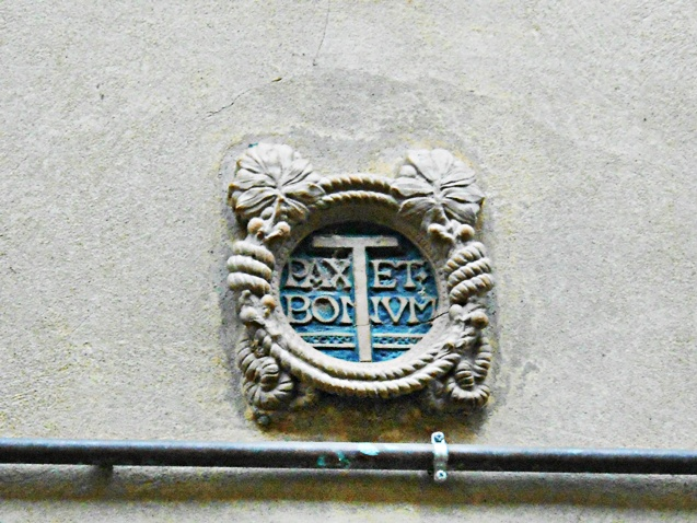 coat of arm